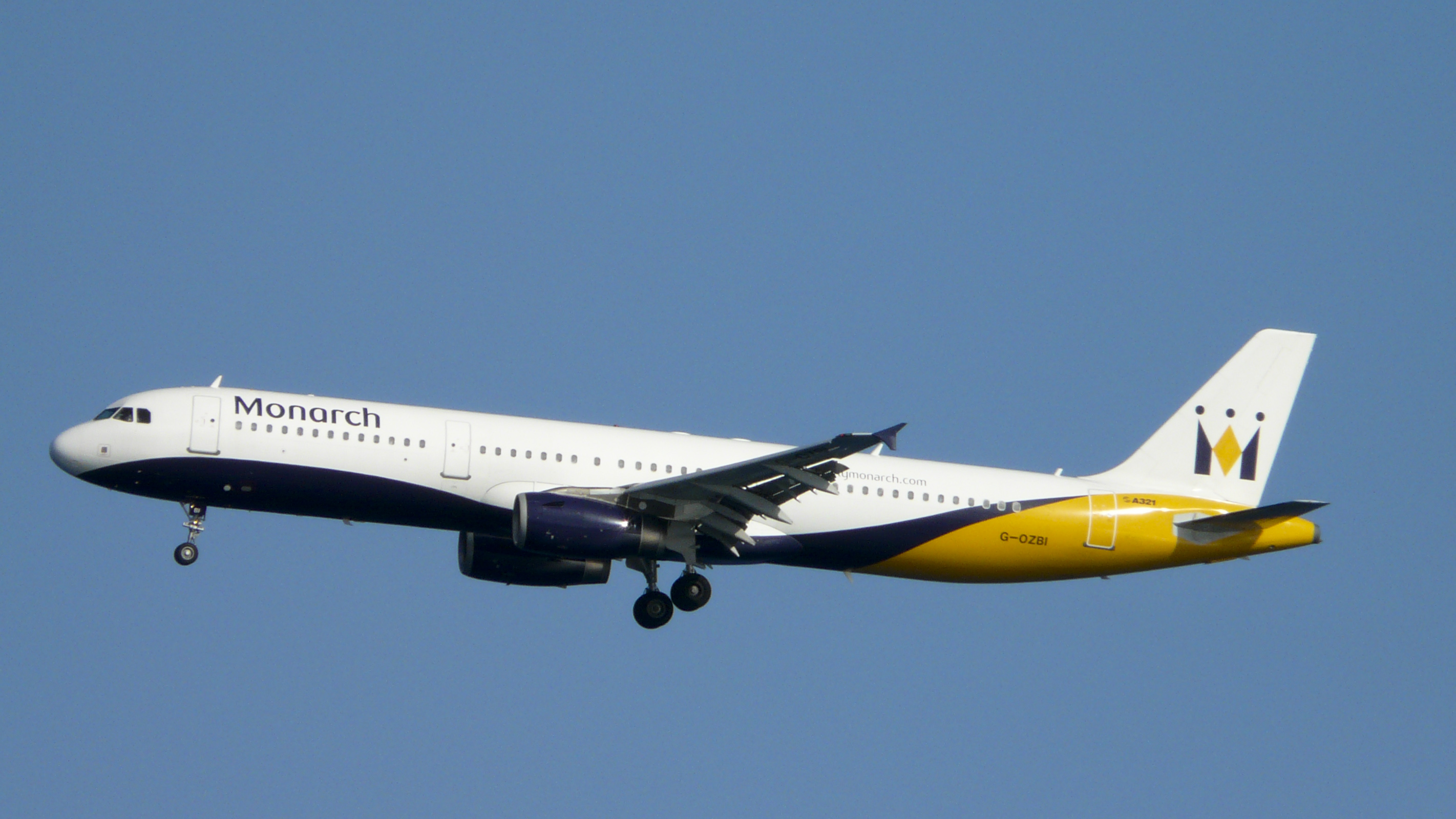 Monarch Airlines A321 G-OZBI